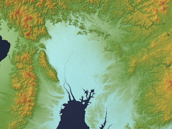 Nōbi Plain in the border between Aichi & Gifu Prefecture & Mie Prefectures, Honshu, Japan.